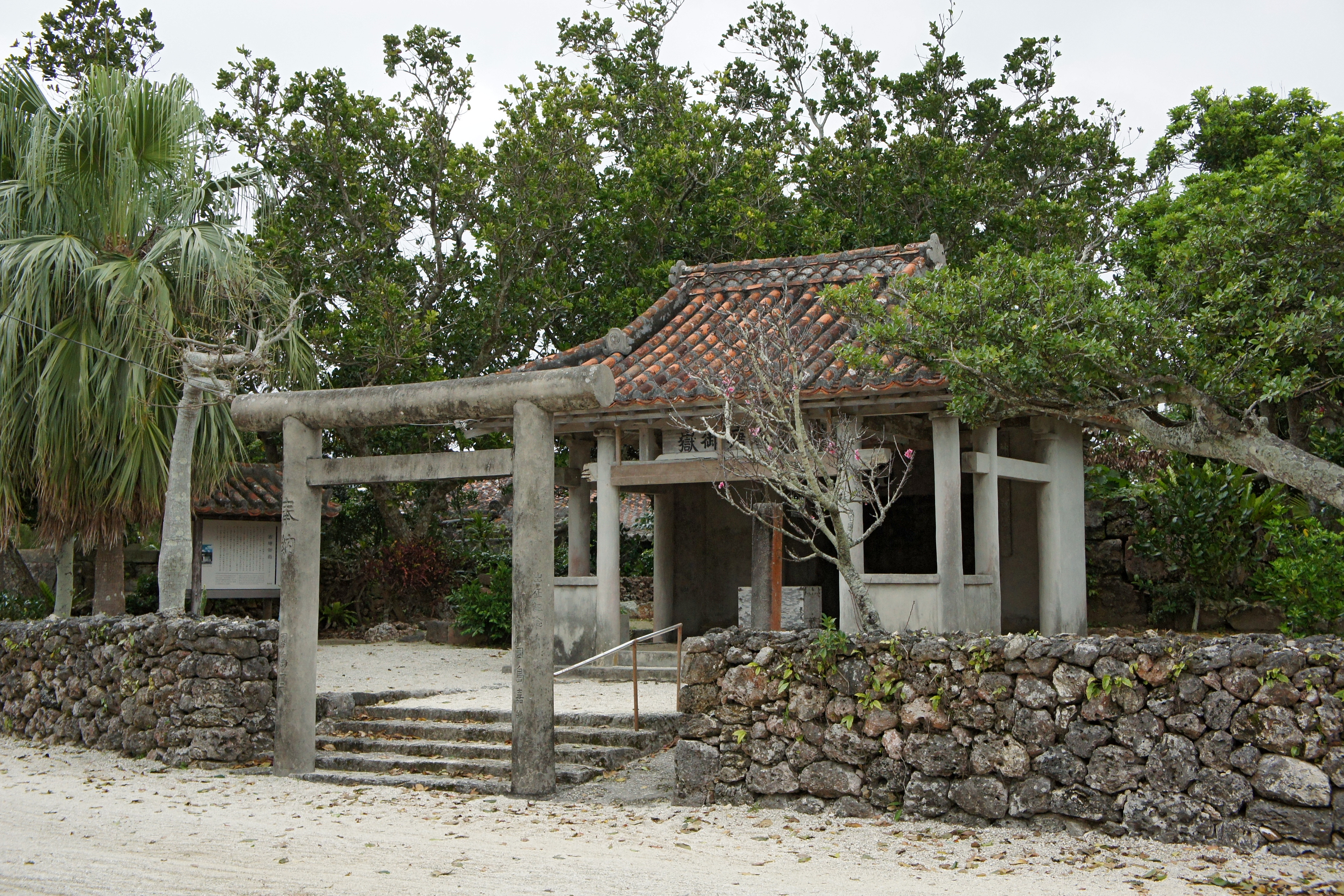 Nishito-On in Taketomi Island, Taketomi Town, Okinawa Prefecture, Japan.